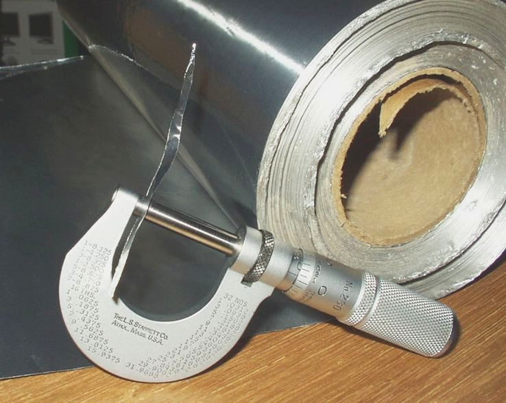 Aluminum foil with a micrometer showing a thickness of approx .0005" (.013mm)